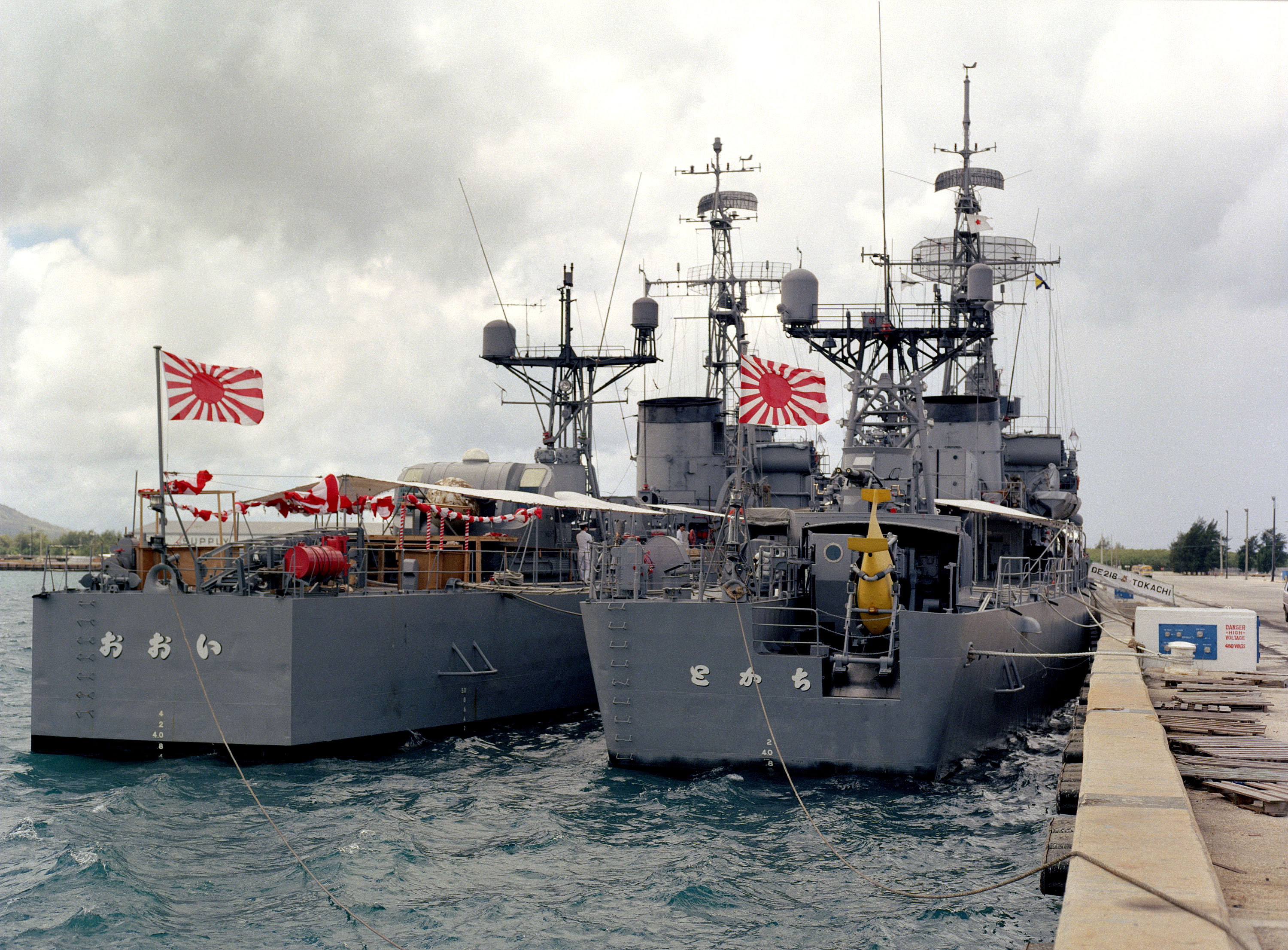 Starboard bow view of the Japanese frigates Tokachi (DE-218), right, and Ōi (DE-214) moored in Apra Harbor.